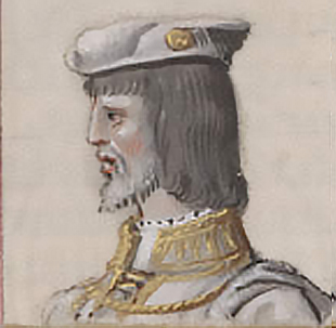 Raymond of Burgundy